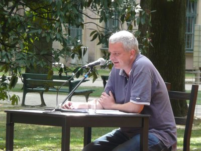 German poet and author Ulf Stolterfoht at the Erlanger Poetenfest 2009